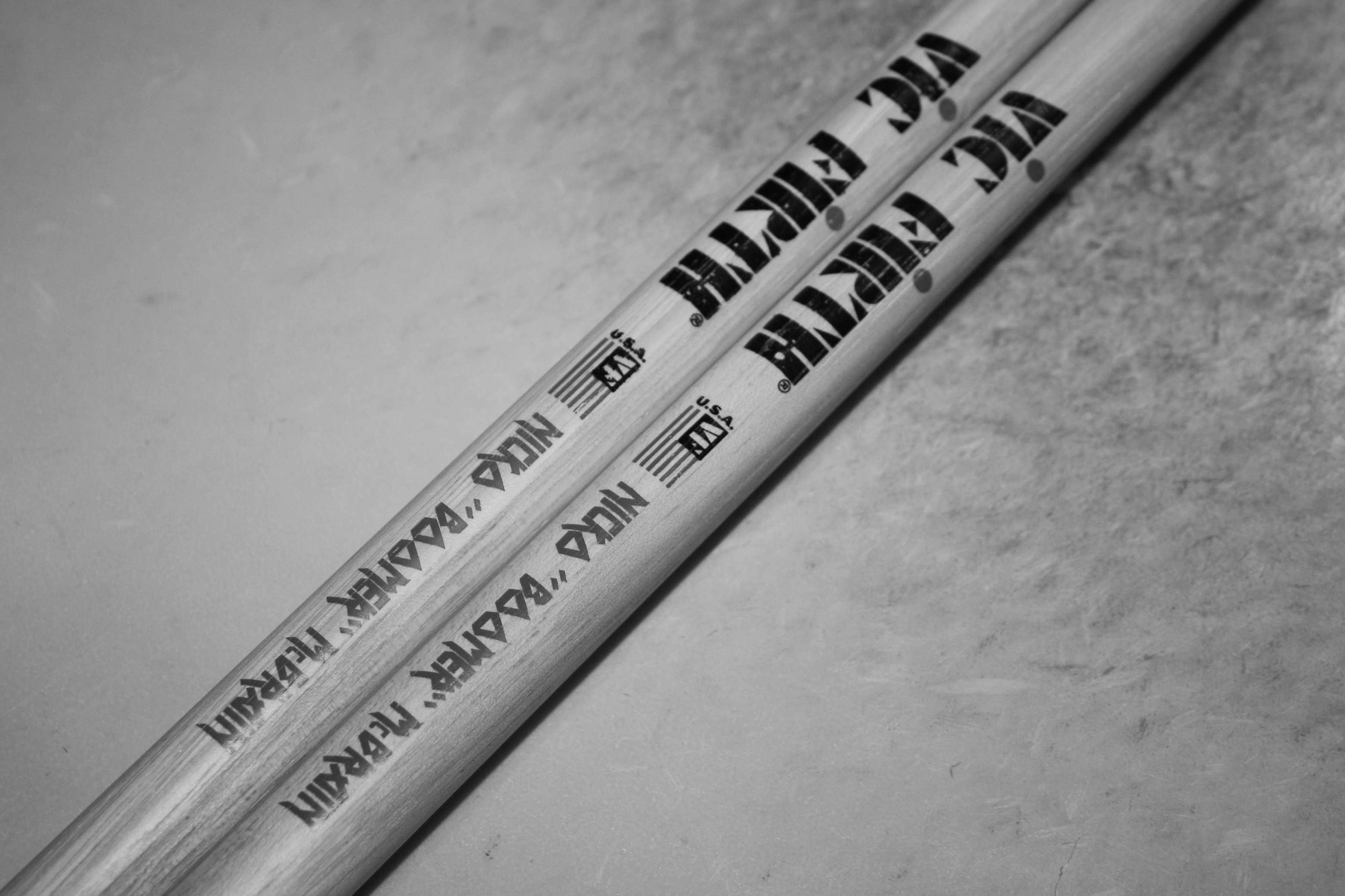 Vic Firth Signature Drumstick - Nicko "Boomer" McBrain